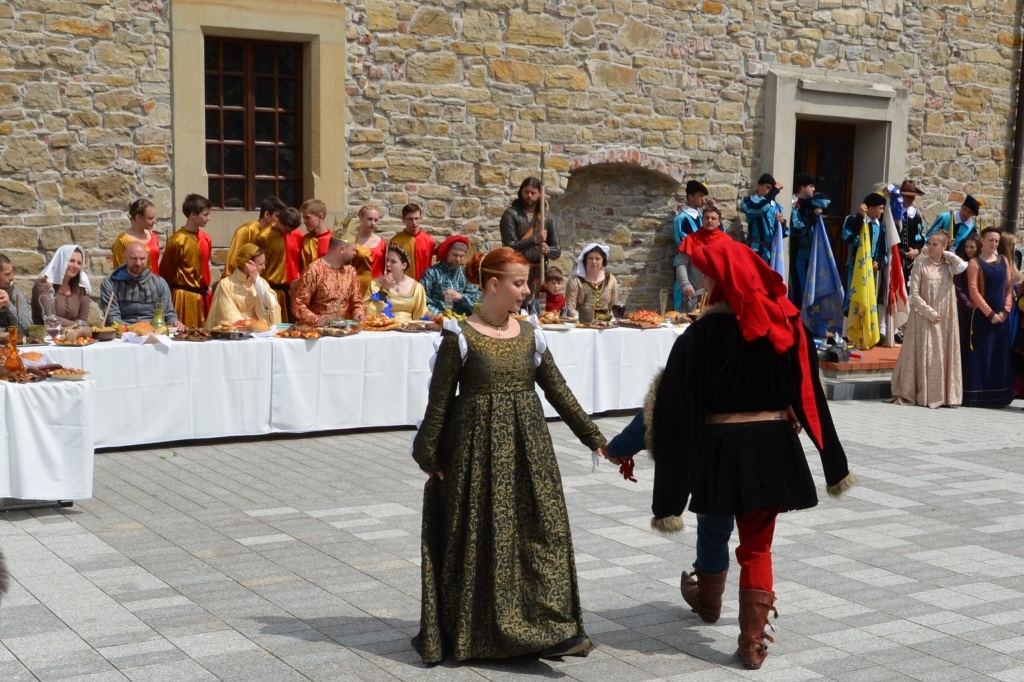 Die Heirat des polnischen Königs Władysław Jagiełło mit Elisabeth von Pilitza an die im Jahre 1417 auf der Burg zu Sanok